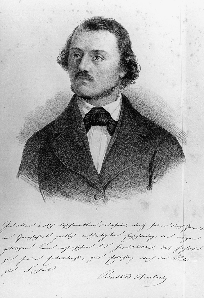 Berthold Auerbach (February 28, 1812 – February 8, 1882), German-Jewish poet, well-known as author of "Schwarzwaelder Dorfgeschichten".